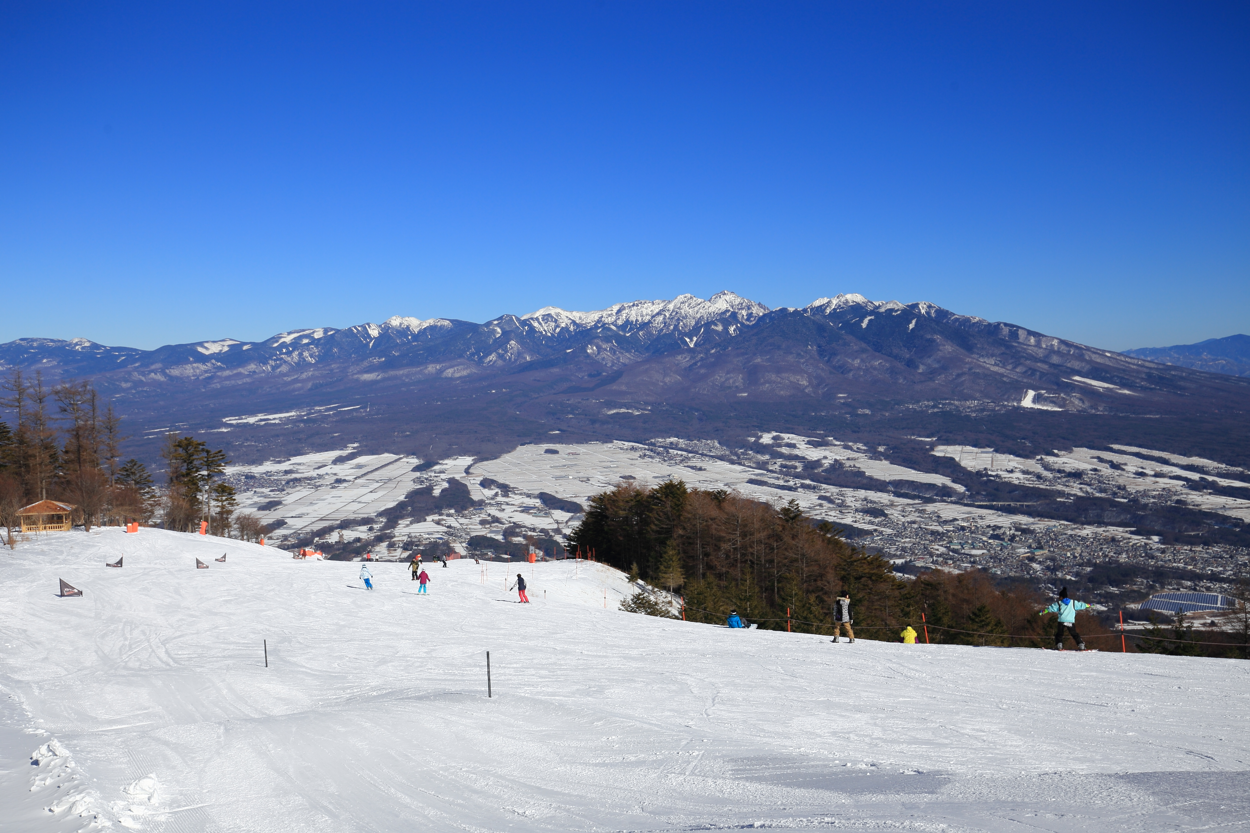 Yatsugatake Mountains as seen from the southwest. Taken from Mount Nyugasa in Nagano Prefecture, Japan.